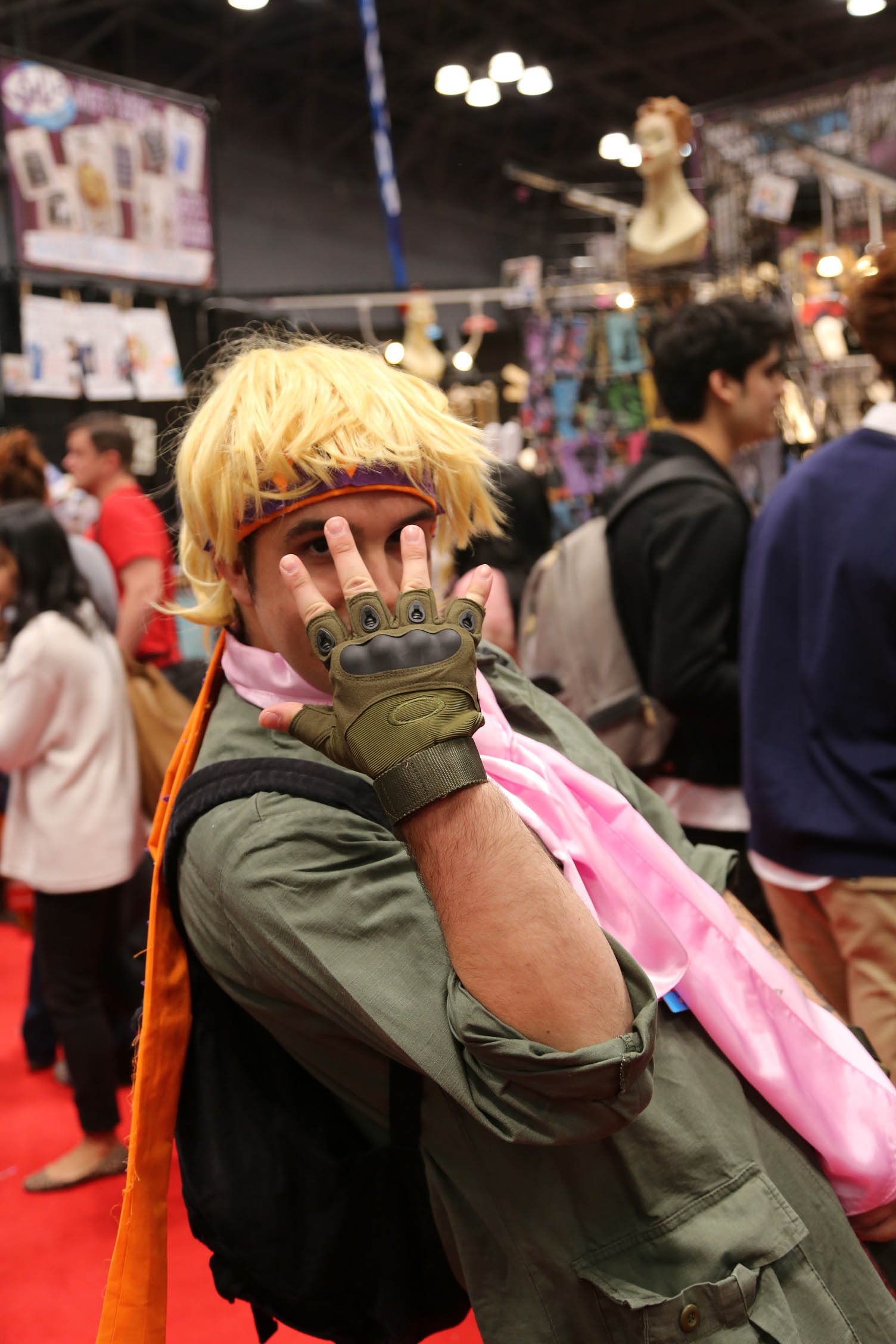 Cosplay at the 2014 New York Comic Con.